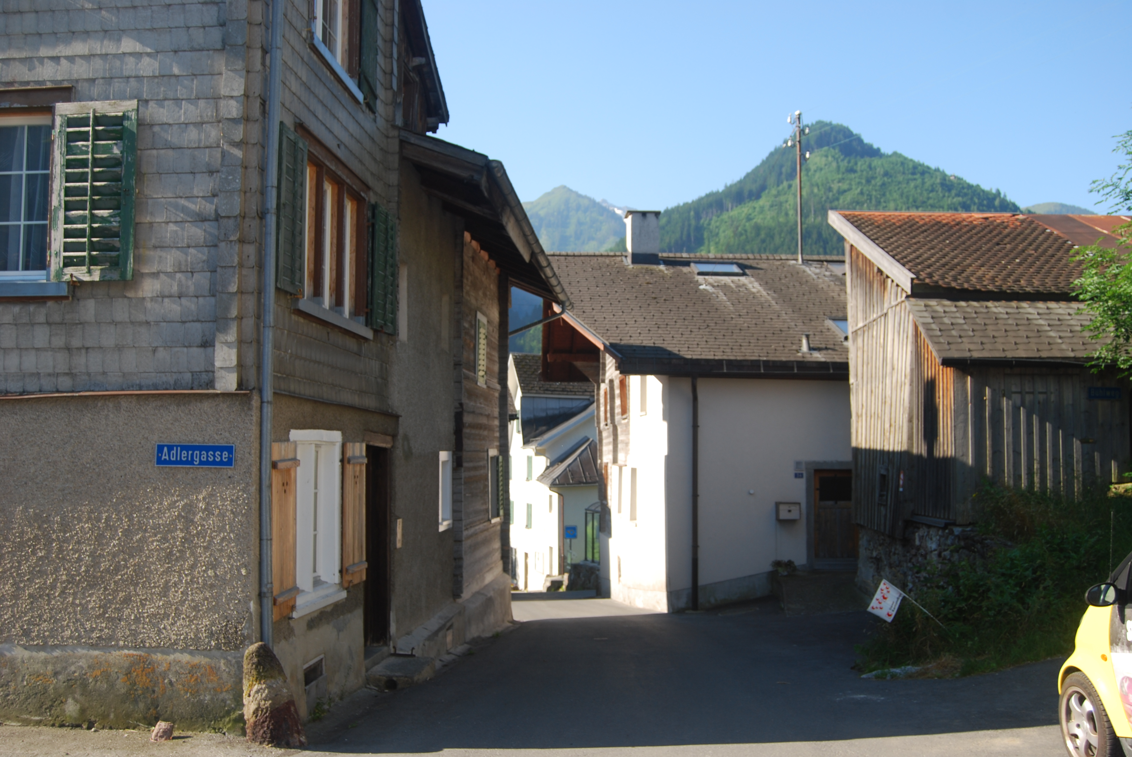 Sool, canton of Glarus, Switzerland